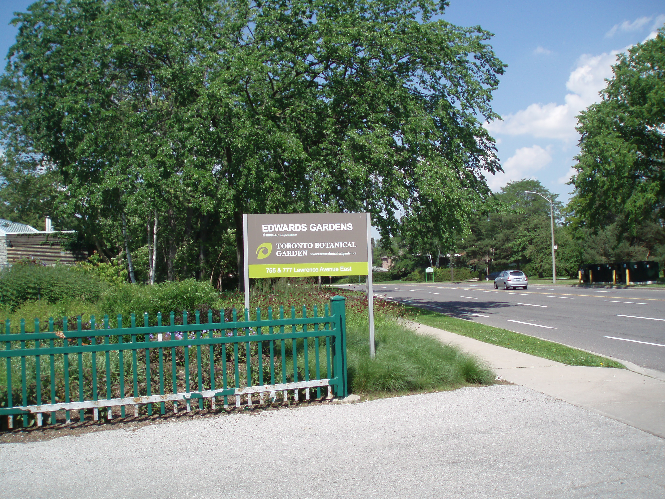 Edwards Gardens in Toronto